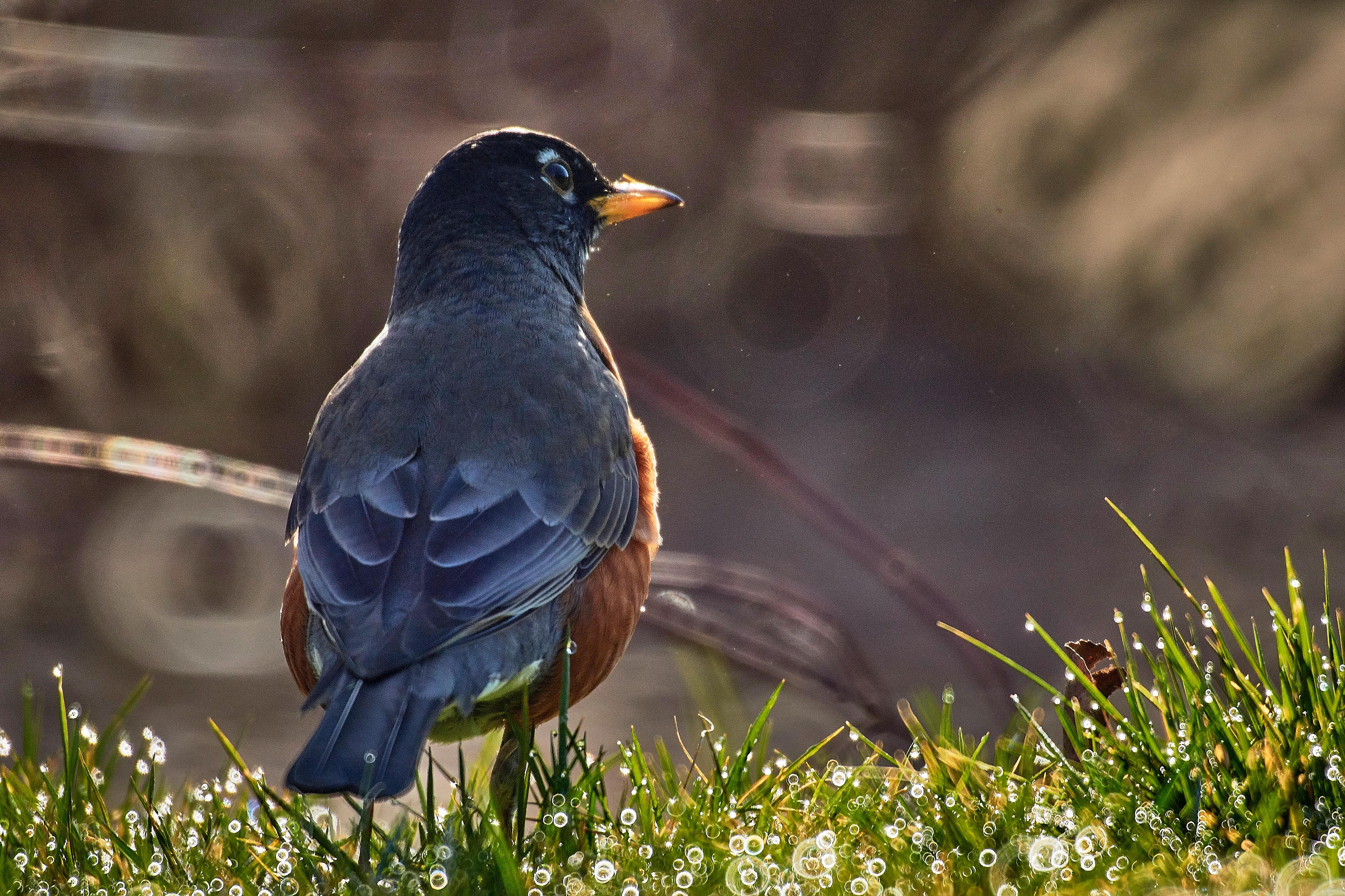 Example of donut-shaped bokeh from the Minolta AF Reflex 500mm